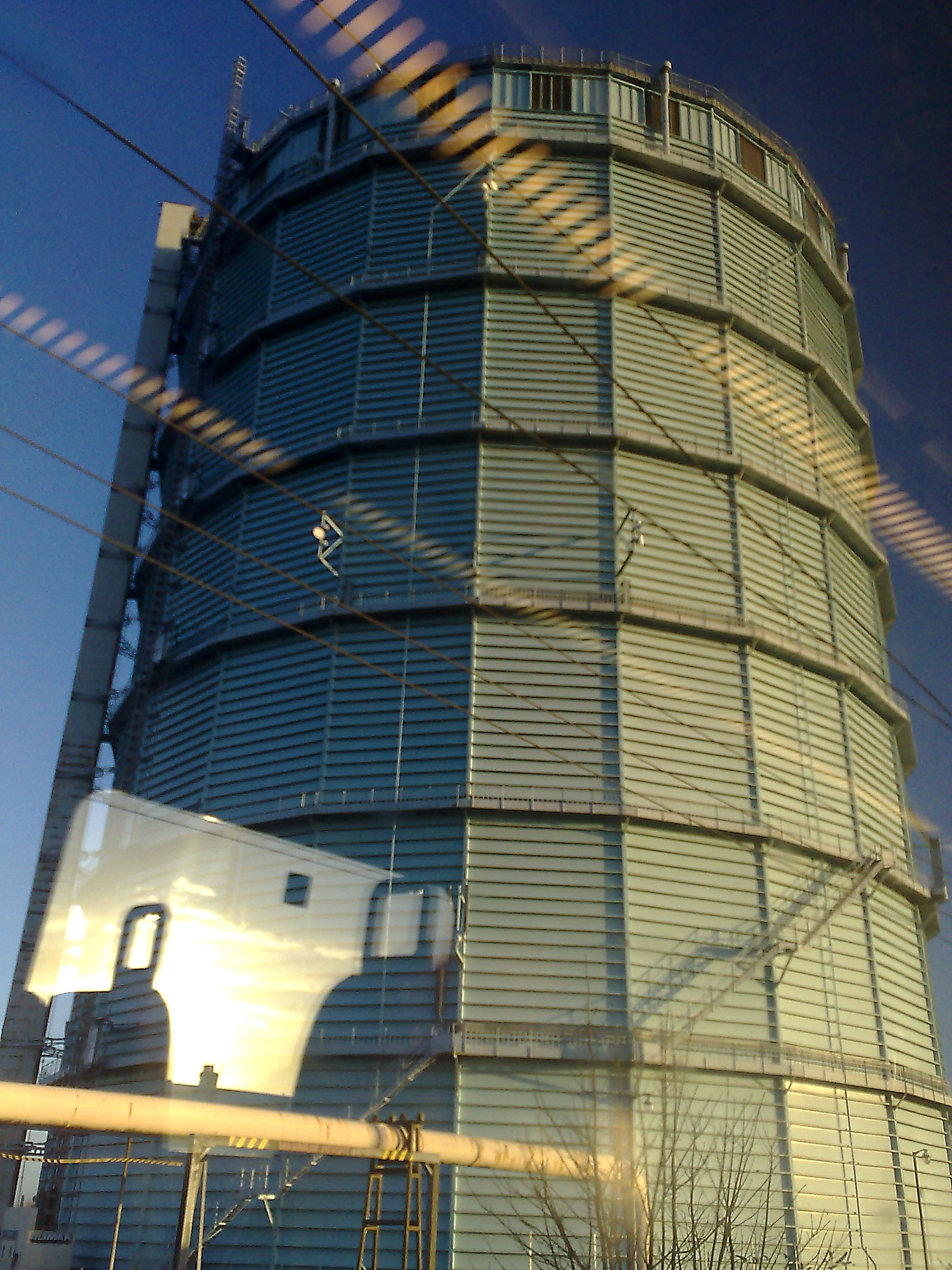 Taken from a First Great Western train